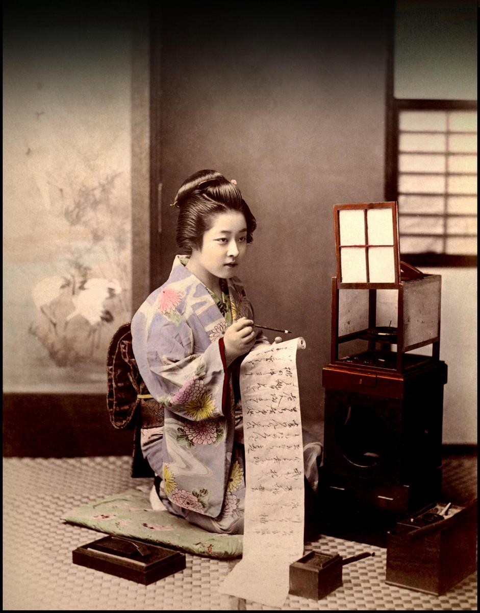 hand tinted albumen print